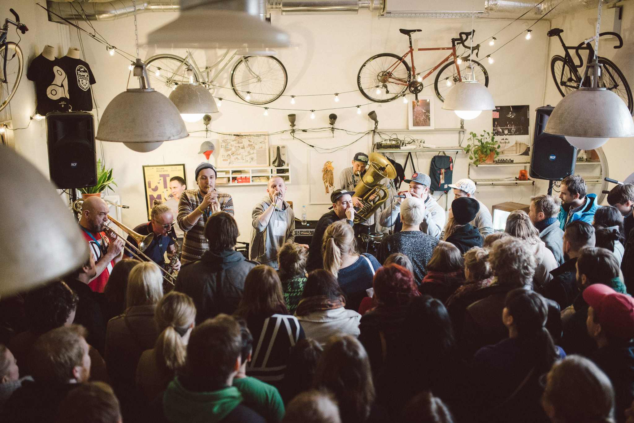 Gorö Lana Jook rattapoes